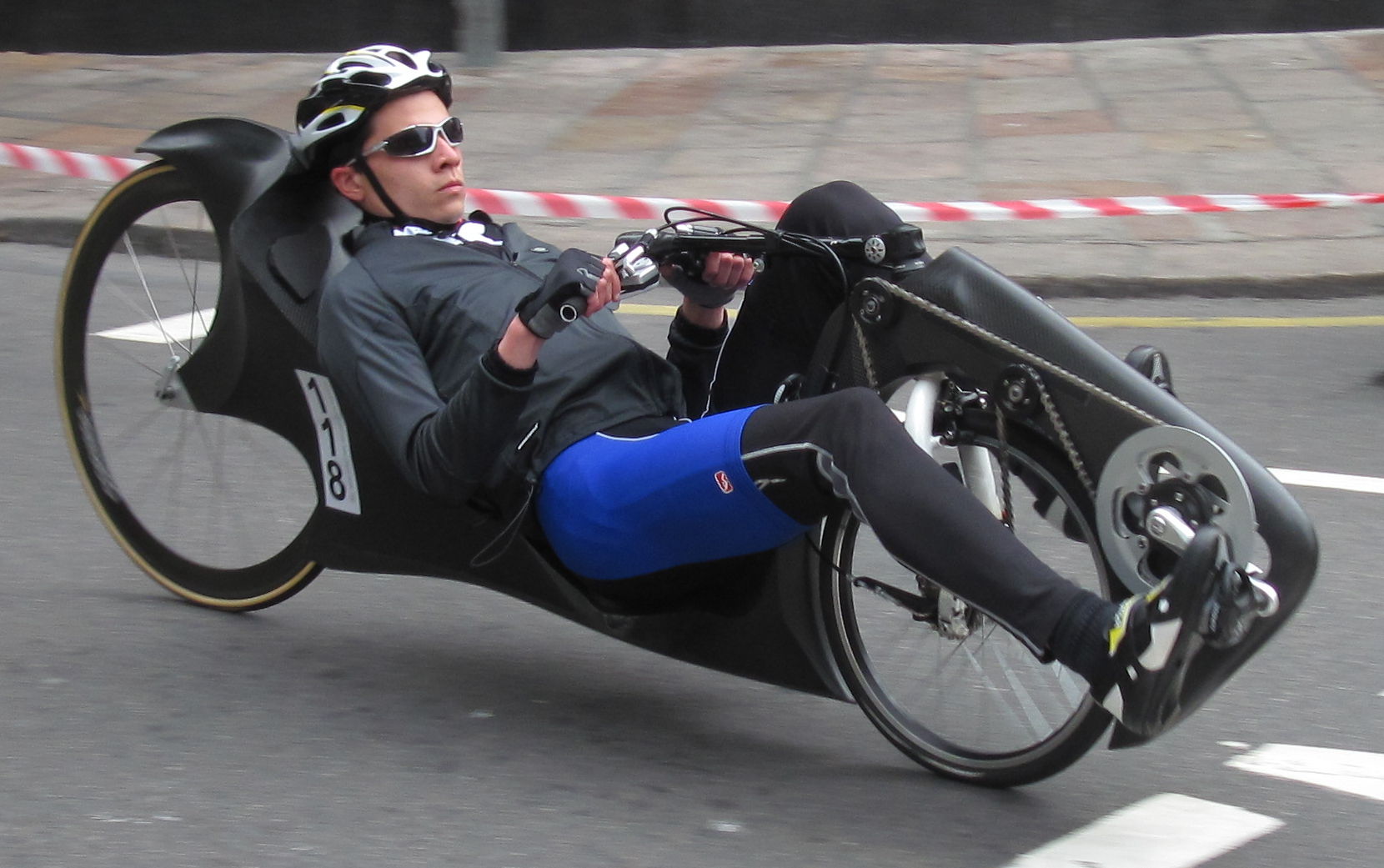 Jersey Town Criterium recumbent bicycle races, Saint Helier, Jersey - World Human Powered Vehicle Association 2010 World Championship